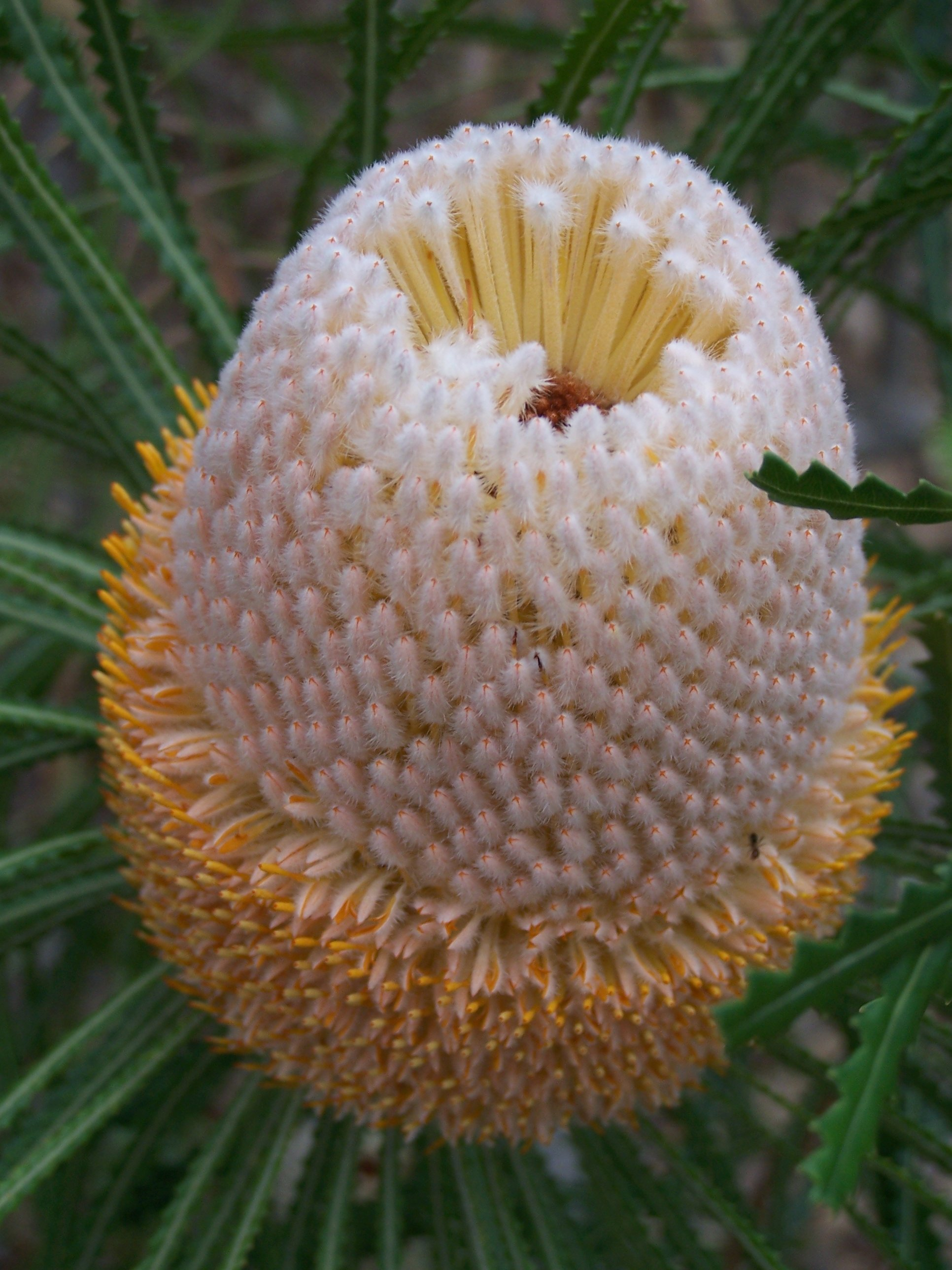 Banksia hookeriana, colloquially known as a hookie, the only winter flowering acorn banksia